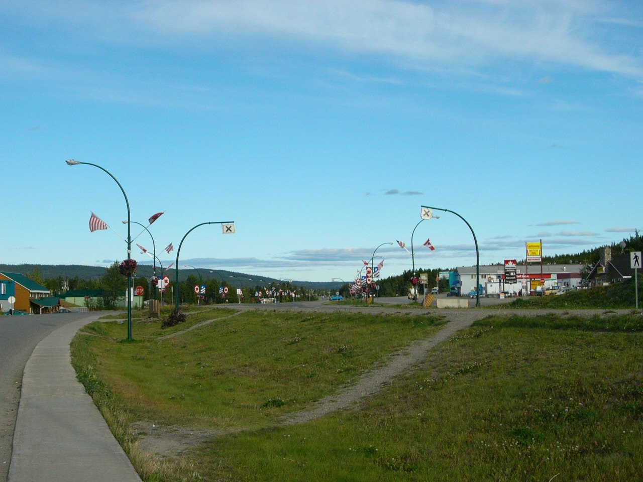 Yufei Yuan on August 15th, 2005.